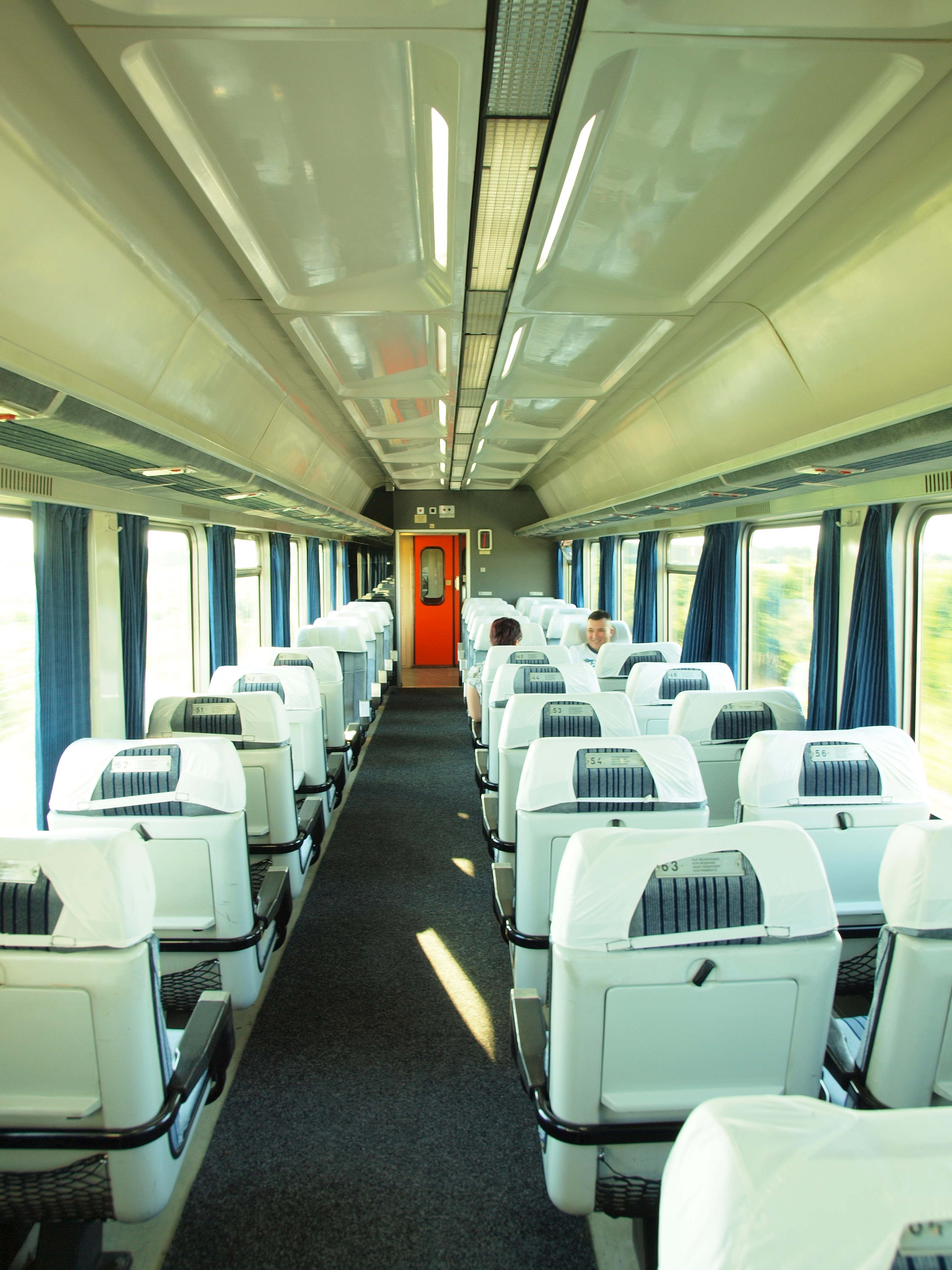 Gosa Z1